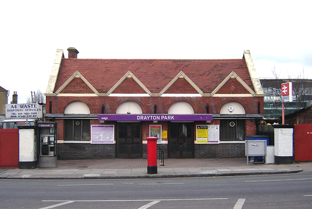 Drayton Park Station, Holloway, Islington. 26 February 2006. Photographer: Fin Fahey.